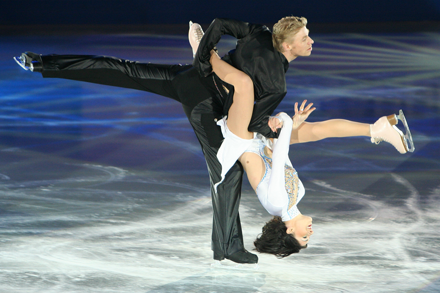 Isabelle Delobel & Olivier Schoenfelder perform a lift during their exhibition at the 2007 European Figure Skating Championships.